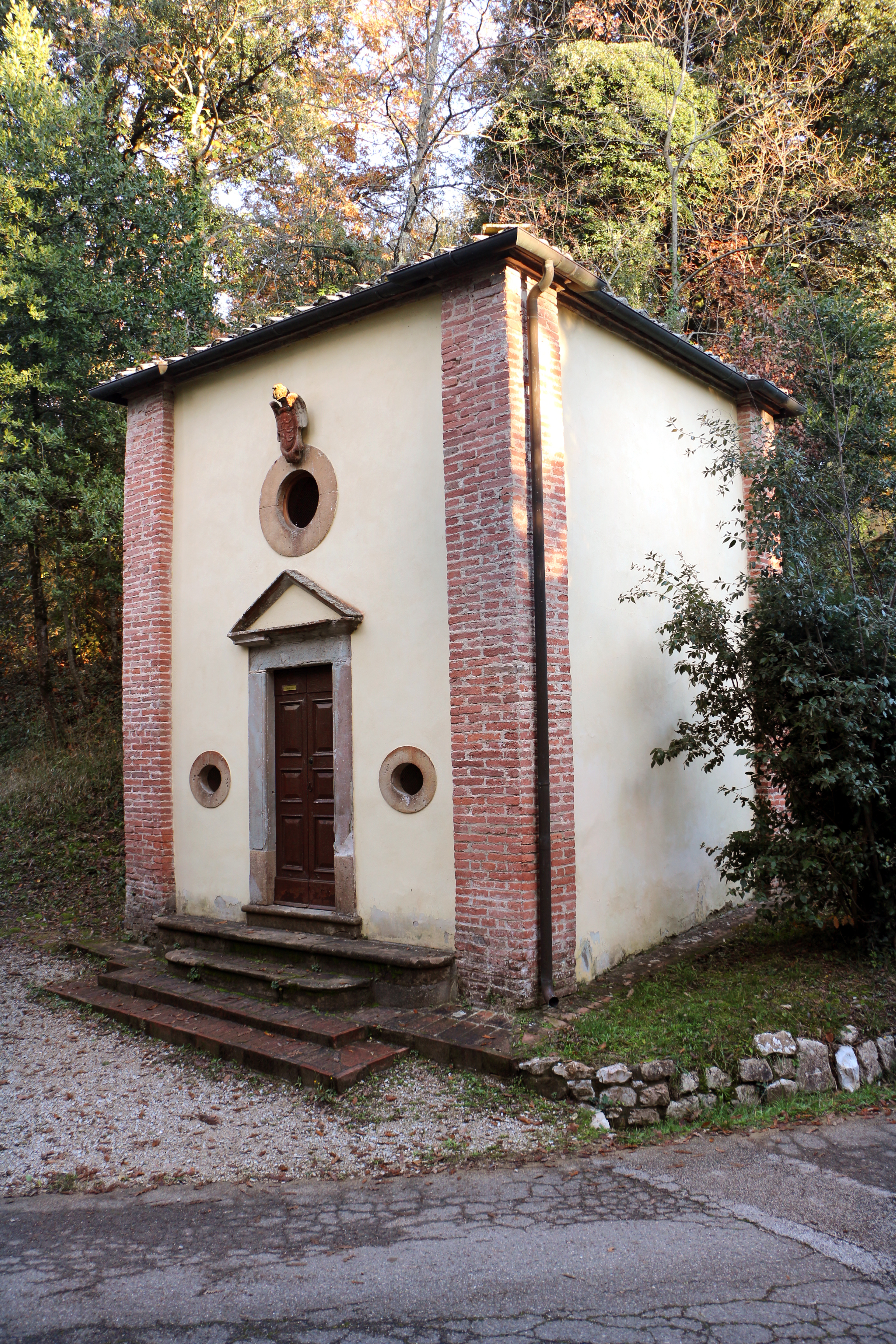 San Vivaldo Sacro Monte